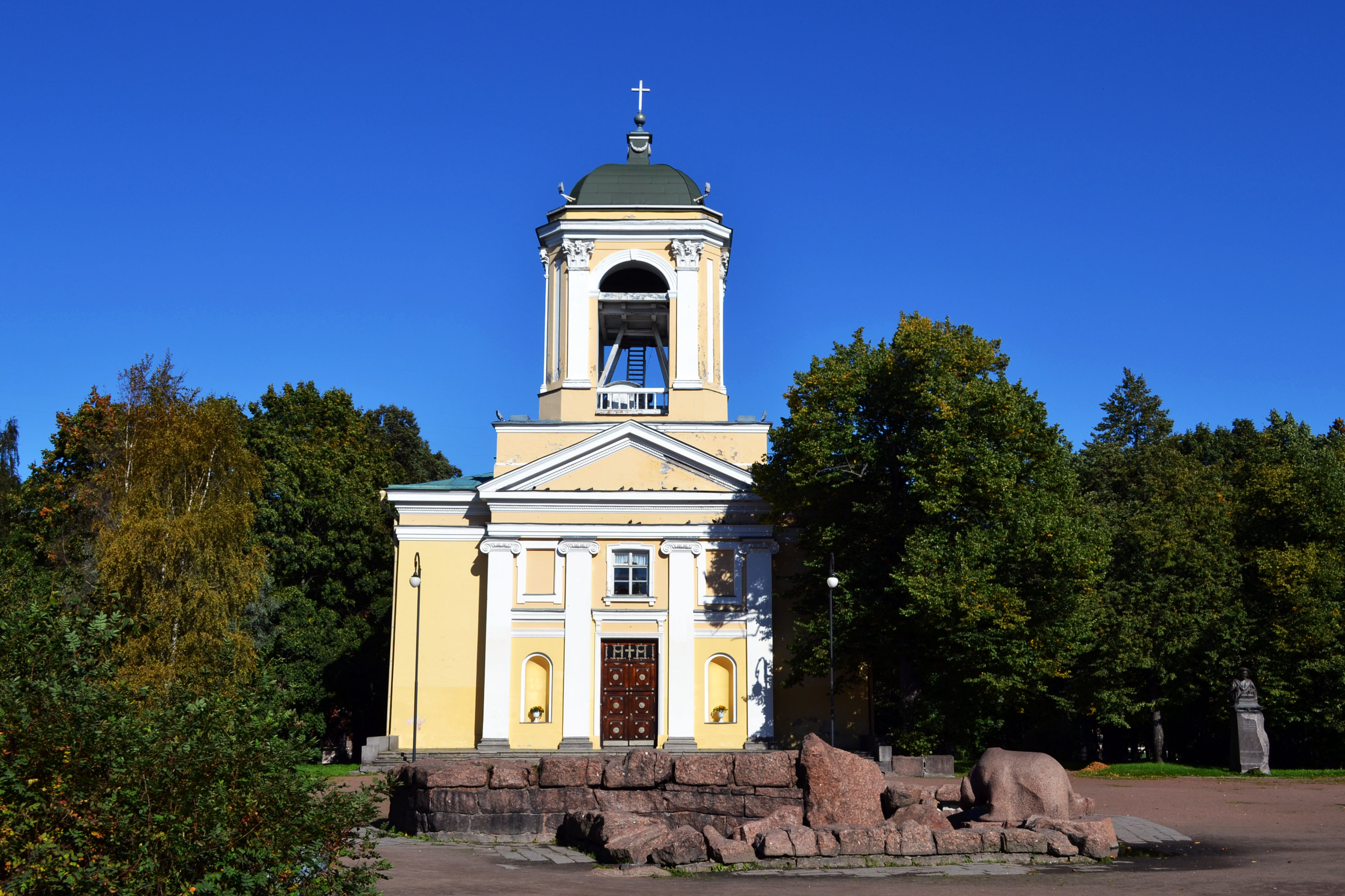 Bust of Mikael Agricola (2009) (originally 1908 by Emil Wikström) can be seen far right.